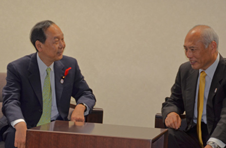 Yōichi Masuzoe, Governor of Tōkyō Metropolis, met Shun'ichi Yamaguchi, Minister of State for Science and Technology Policy, at the Headquarters of the National Institute of Information and Communications Technology in Koganei City, Tōkyō Metropolis on October 22, 2014. (For terms of use, see 内閣府ホームページ利用規約 - 内閣府.)